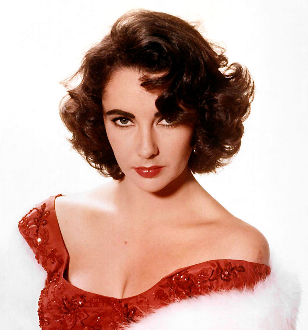 Studio publicity portrait of the American actress Elizabeth Taylor.